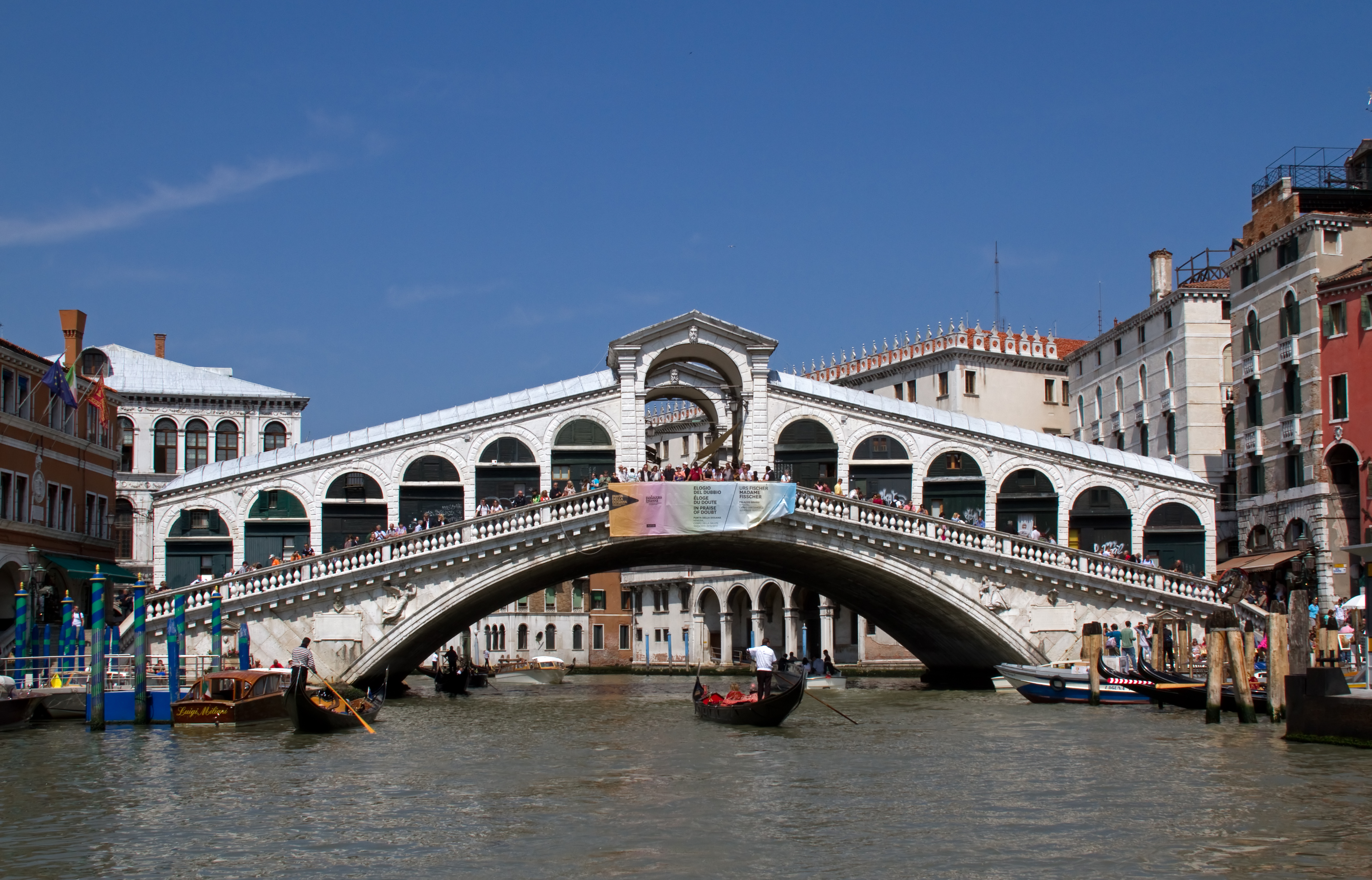 Rialto Bridge 1